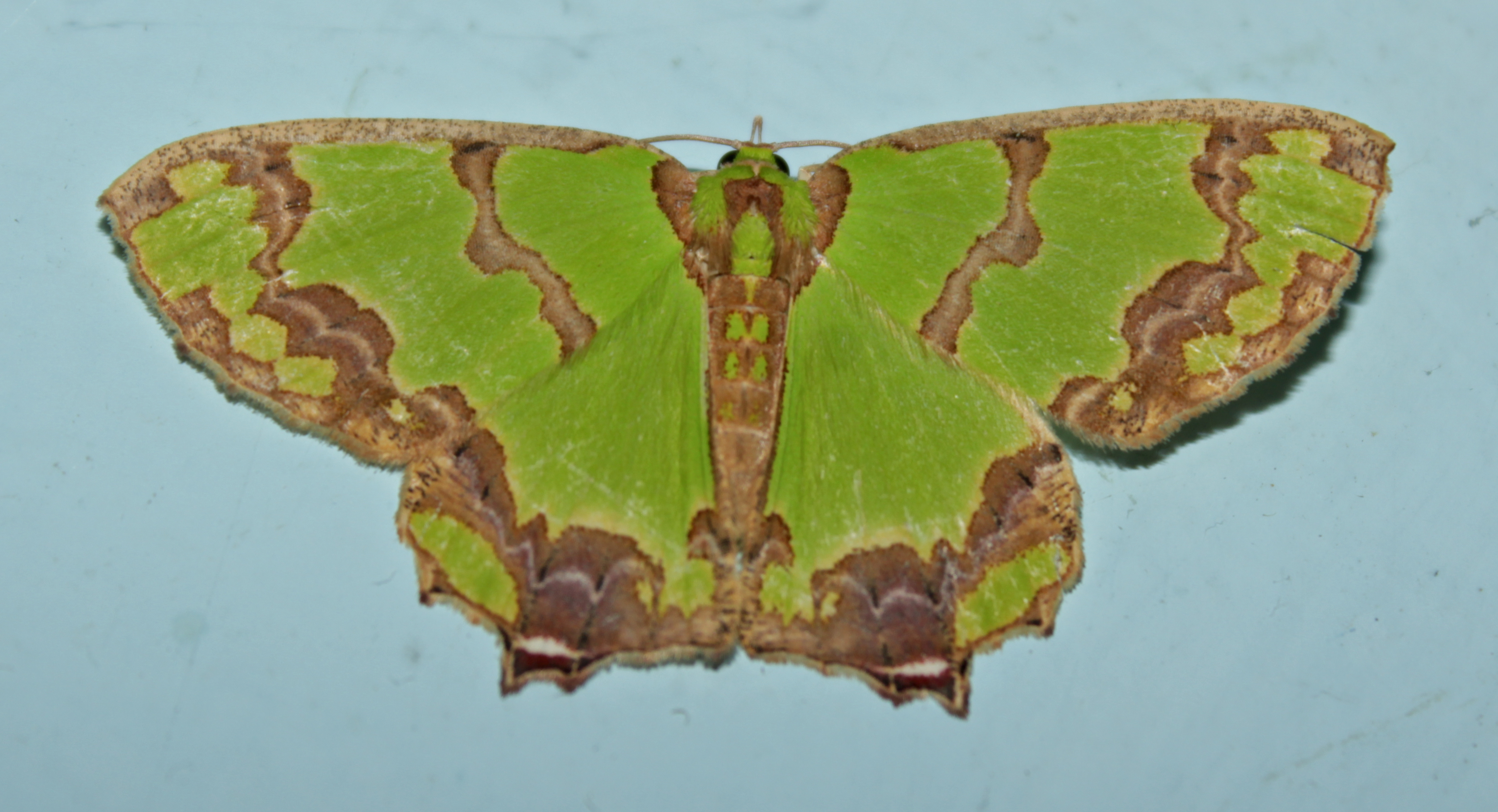 An Emerald garden moth Agathia lycaenaria. Photographed near Kanjirappally